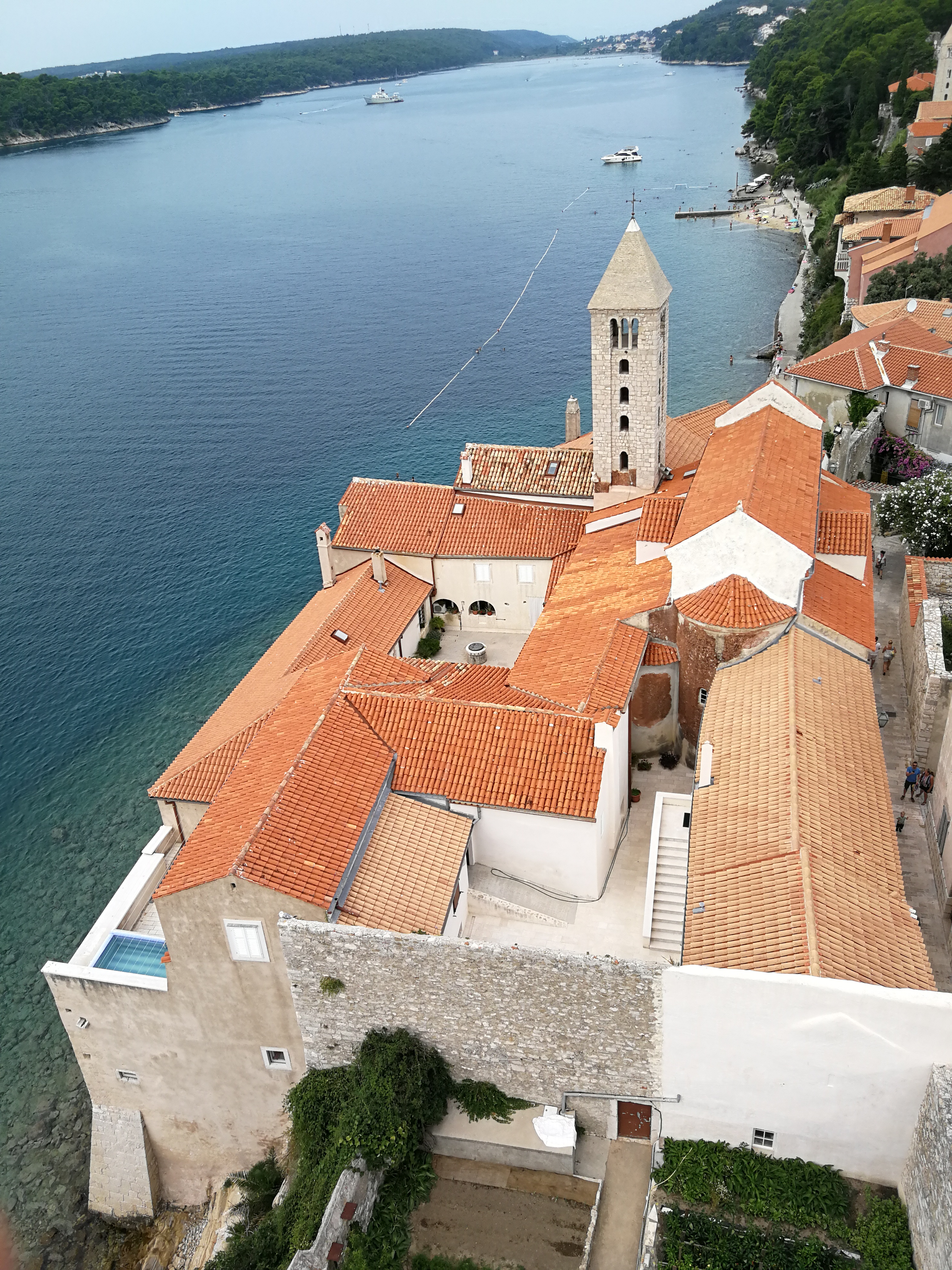 St. Andrew's Monastery at Rab (Croatia)